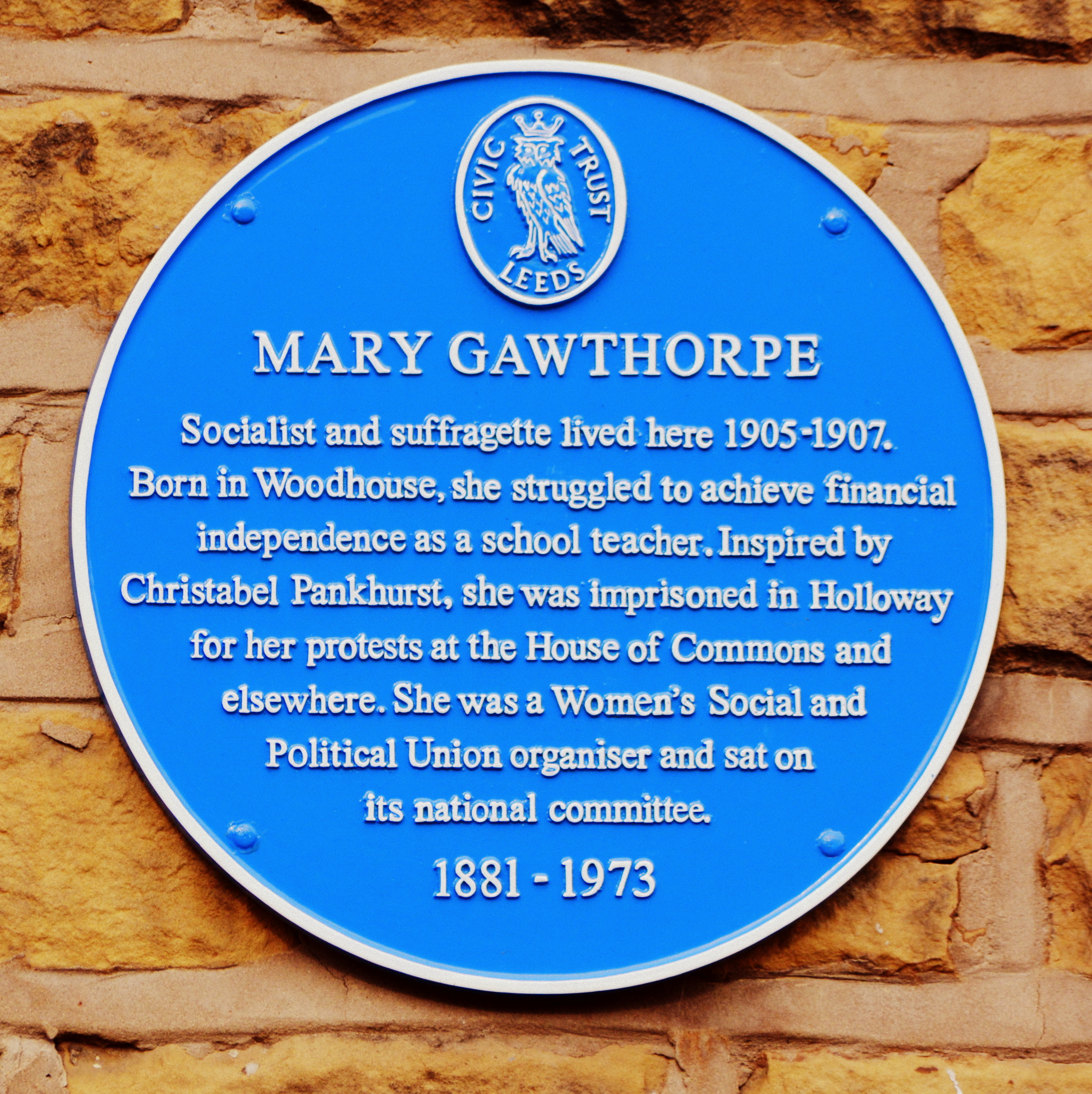 Warrel's Mount, Bramley. Mary Gawthorpe the Suffragette once lived on this street.